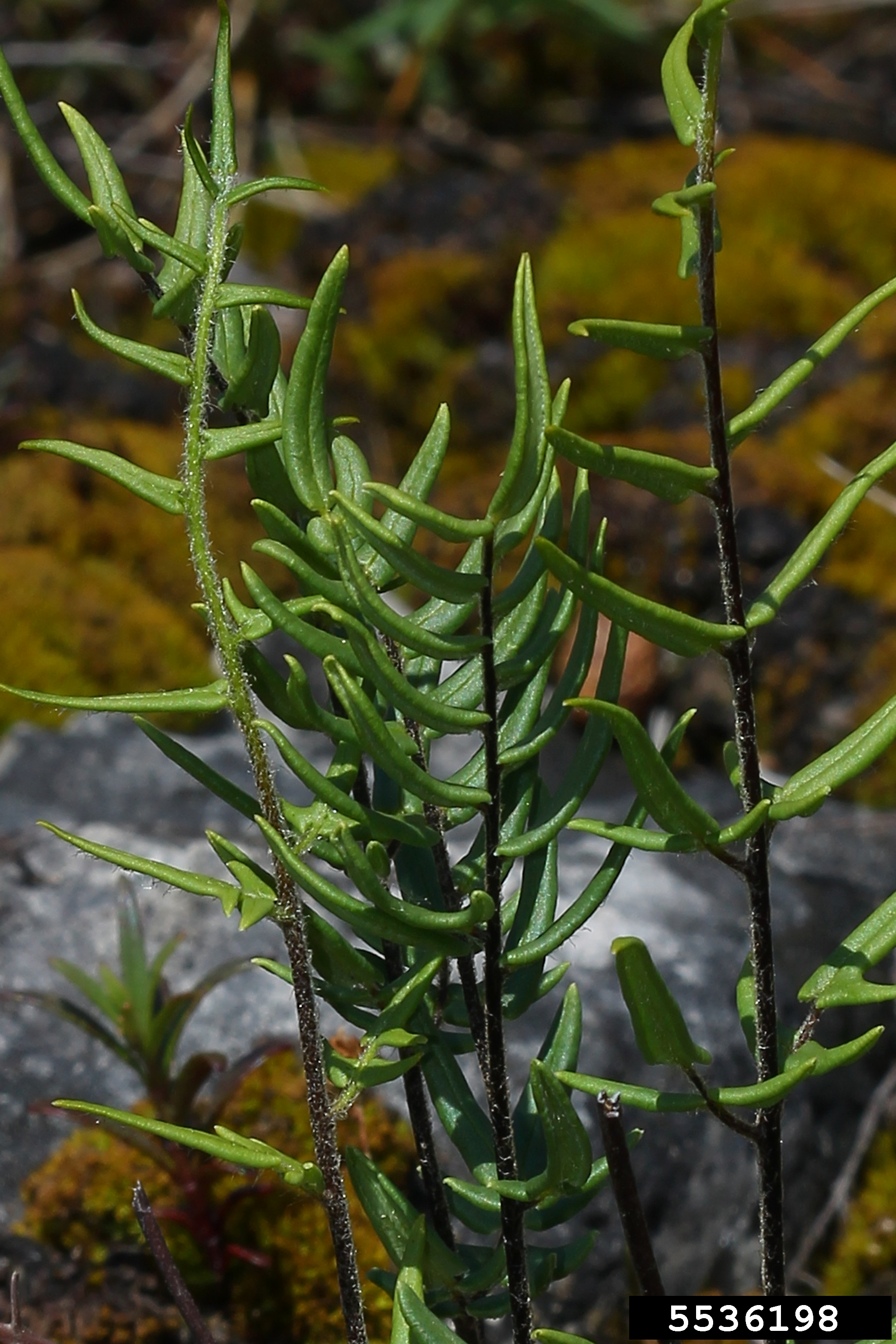 Pellaea atropurpurea (purple cliffbrake)